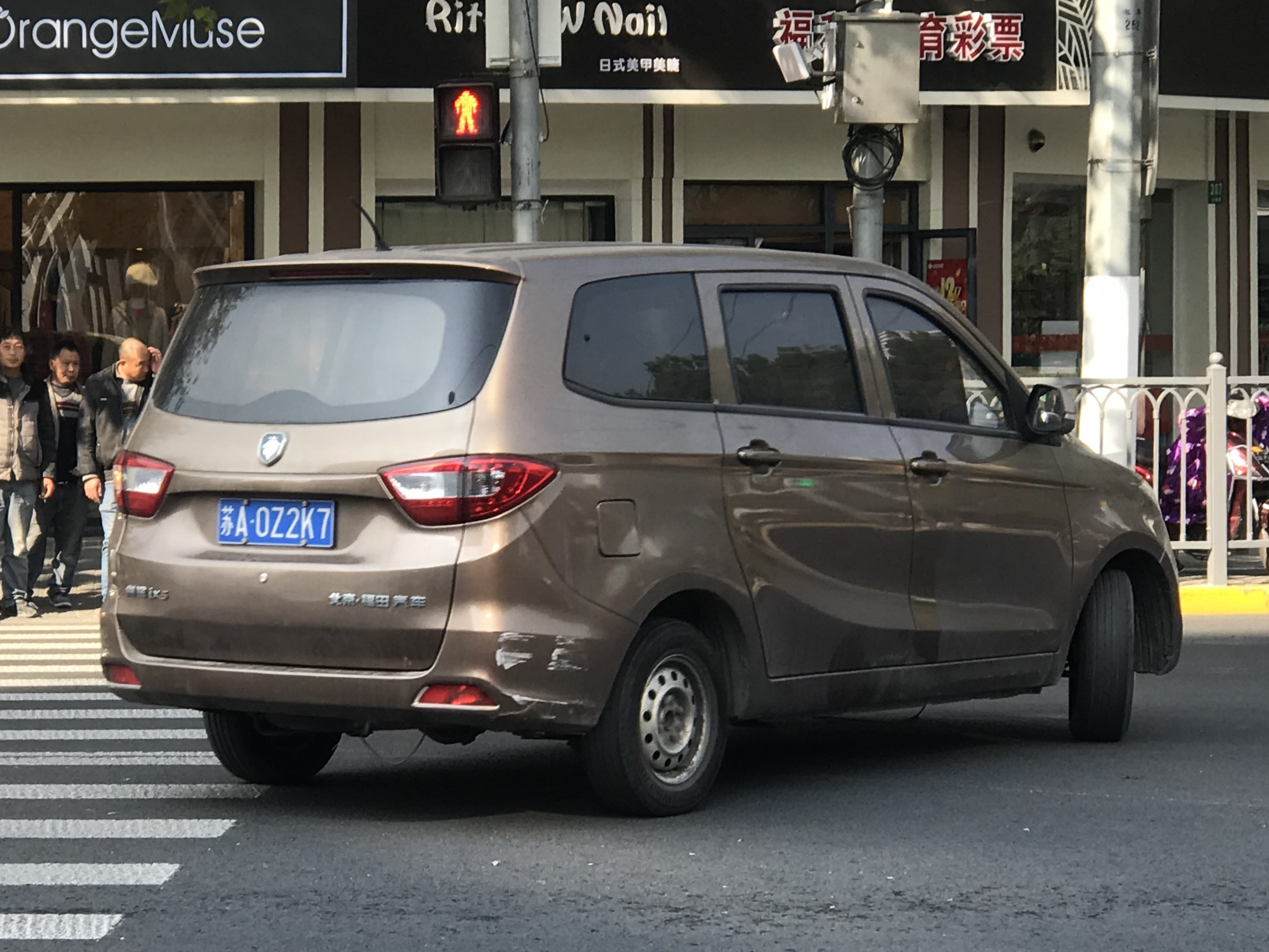 Foton Gratour ix5 rear